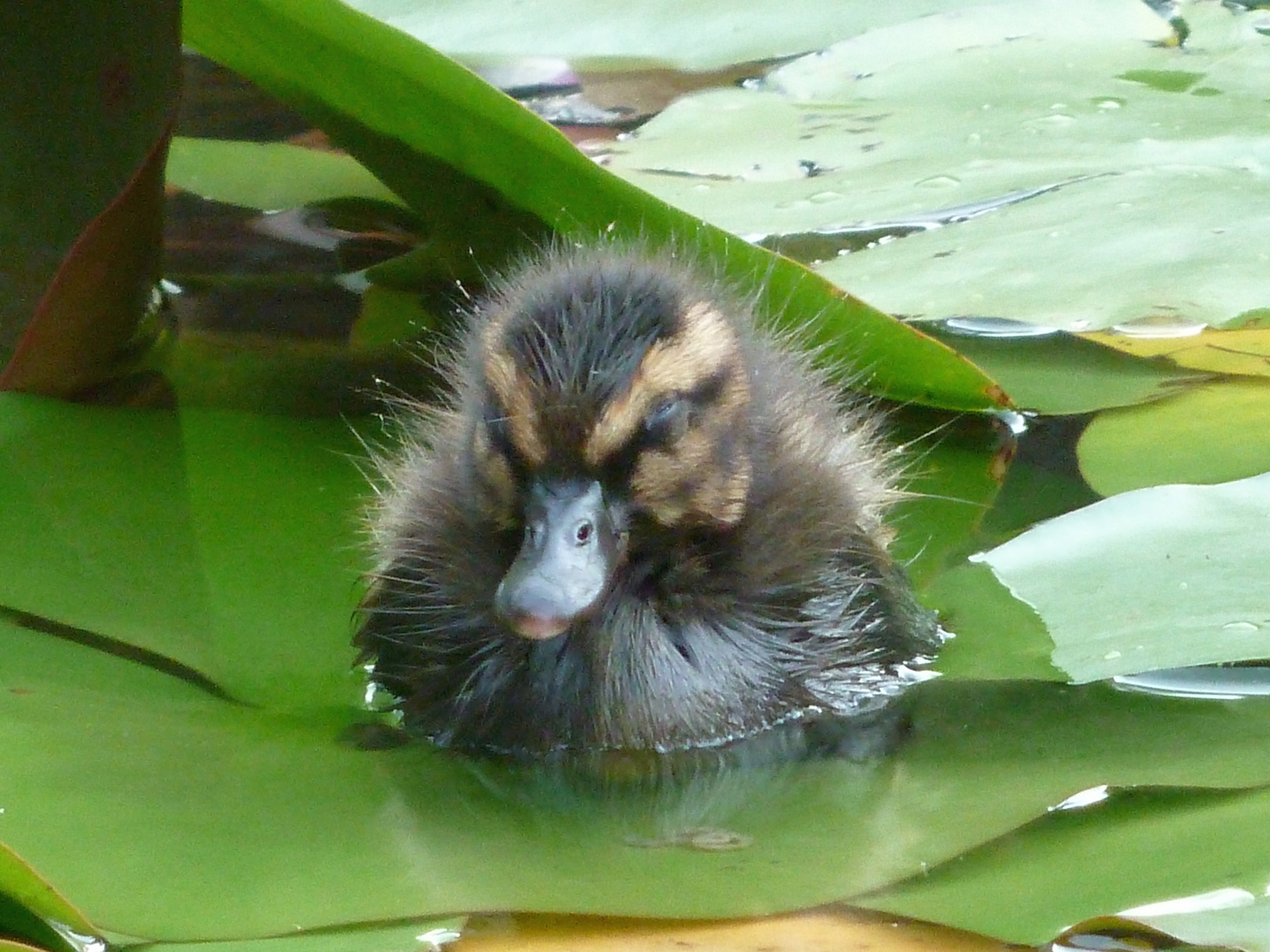 A Mallard duckling (Anas platyrhynchos) in Retiro Park in Madrid (Spain).